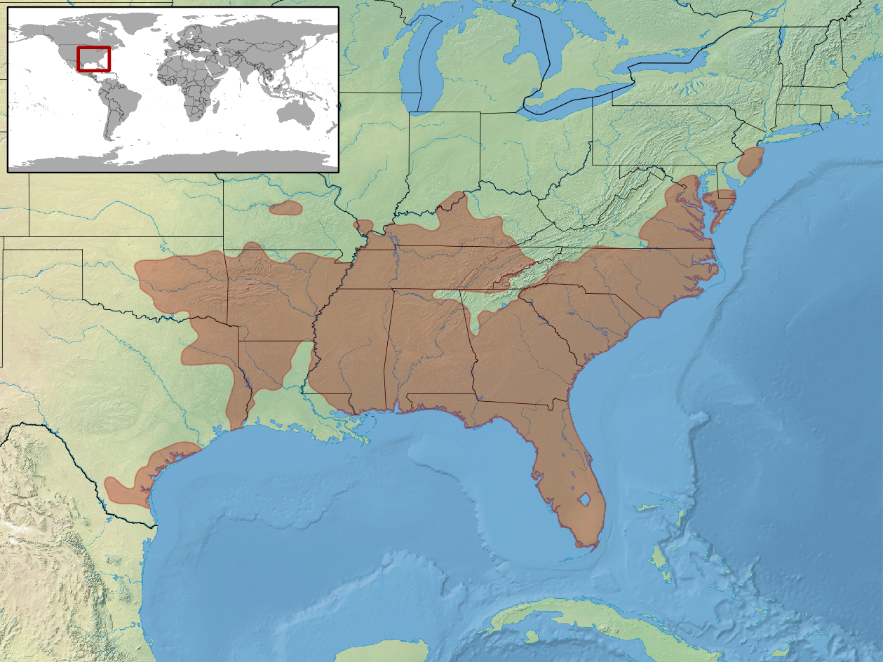 geographic distribution of Cemophora coccinea (Native: United States)